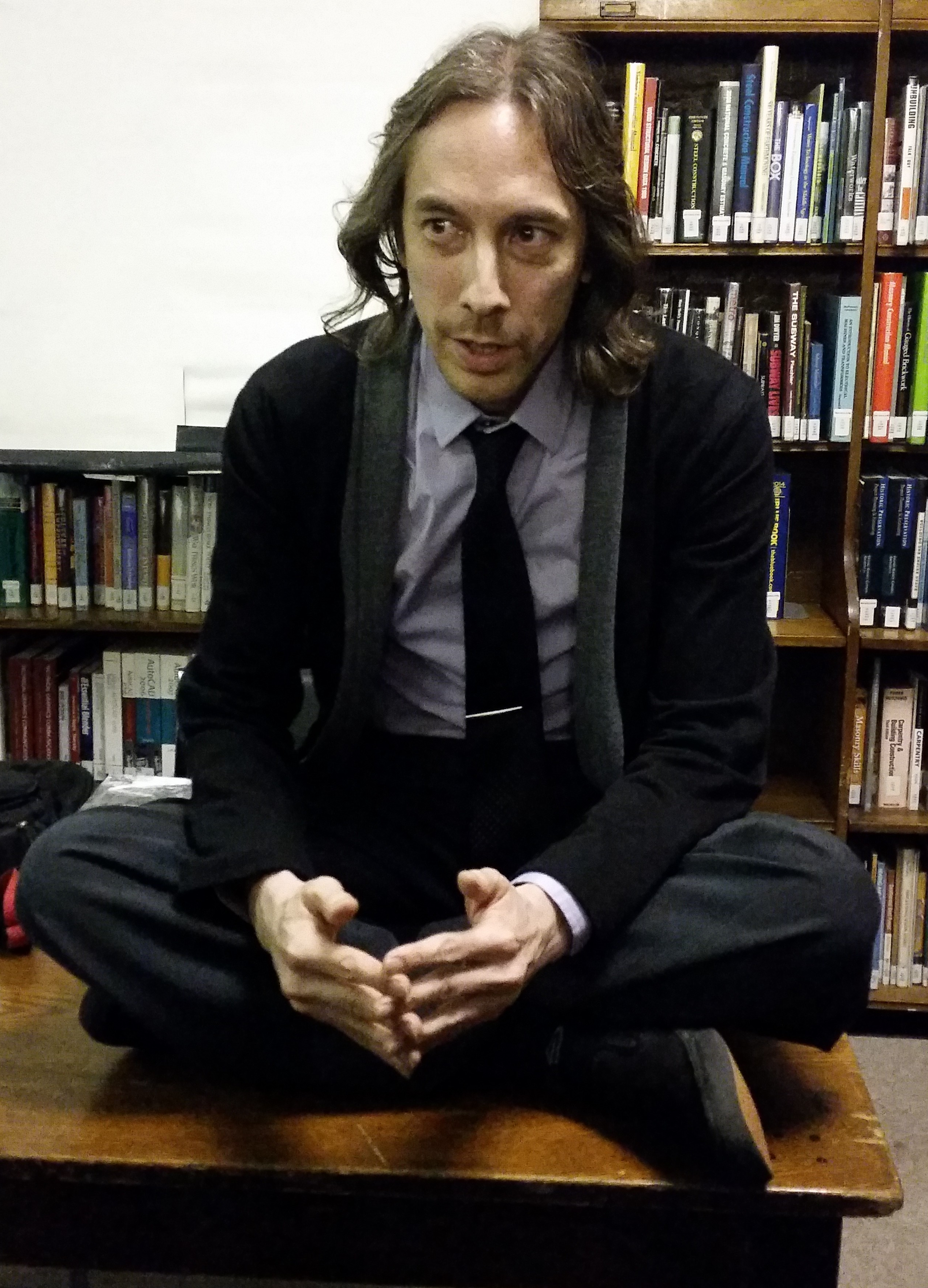 Dr. Huemer answering questions at NYC Junto, October 1st, 2015